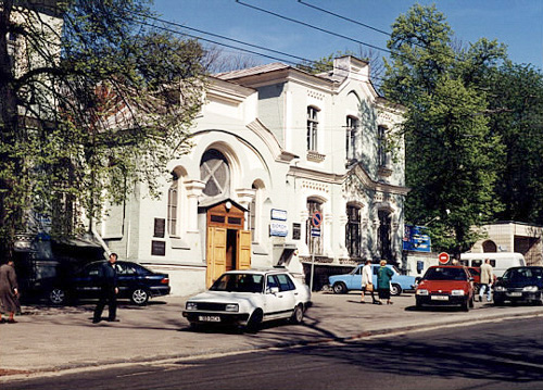 A historical building in Kyiv